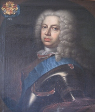 Danish count Christian Rantzau (23 January 1684 – 16 April 1771). This painting is a copy of another painting. The copy is painted in 1909 by Hans Christian Hansen Vantore.